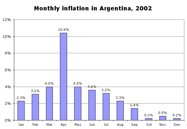 A chart showing the percentage of inflation in Argentina by month during 2002 (the year when the Argentine peso was left to float and depreciated by 75% against the U.S. dollar).